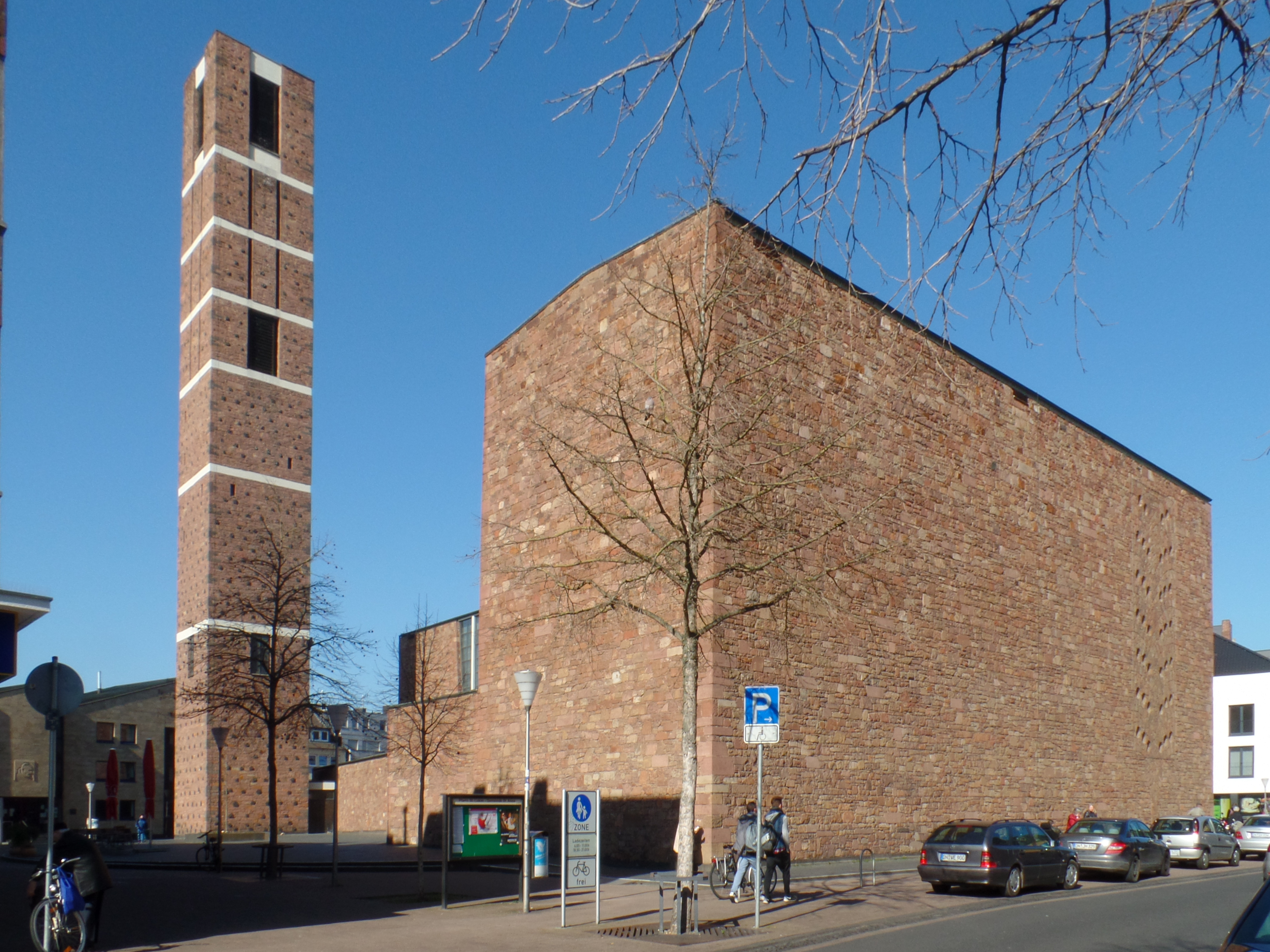 St. Anne Church in Düren.